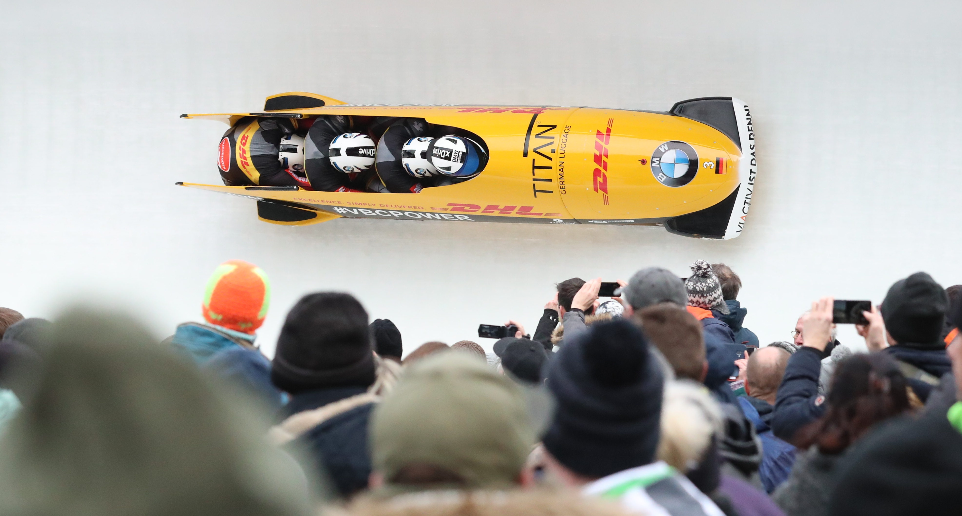 3rd run 4-man bobsleigh at the Bobsleigh and Skeleton World Championships 2020 in Altenberg